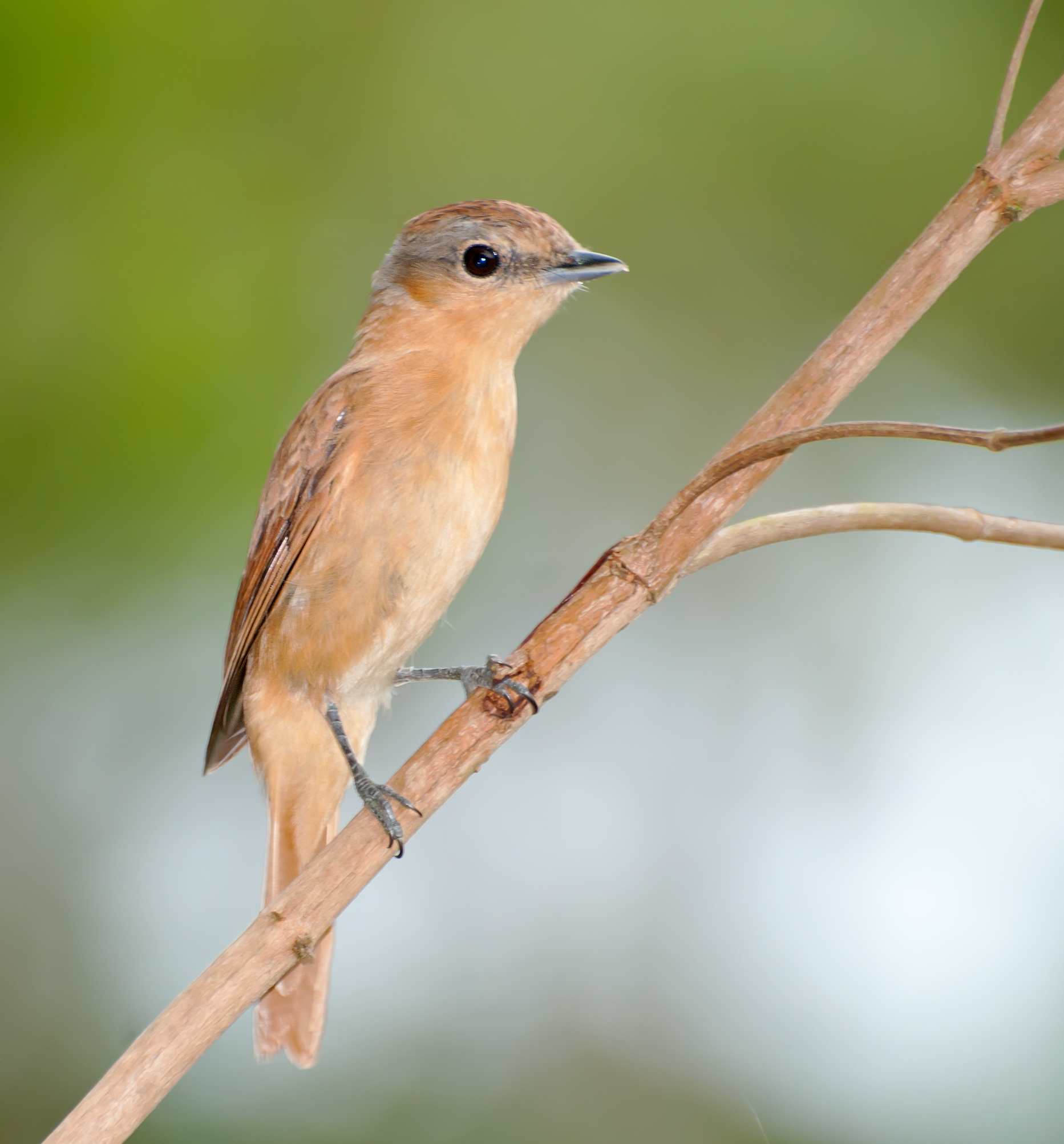 A Chestnut-crowned Becard in Vale do Ribeira, Registro, São Paulo, Brazil.